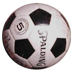 Spalding FootLoose(tm) Soccer Ball.